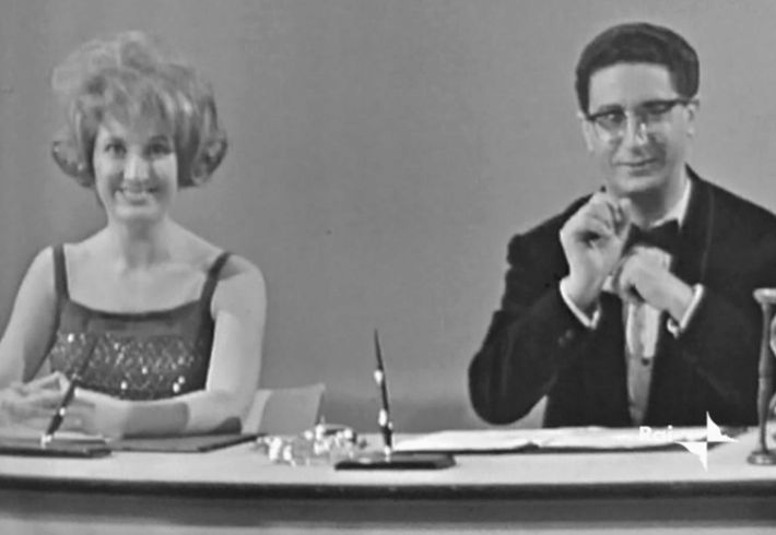 Mina Mazzini and Virgilio Savona